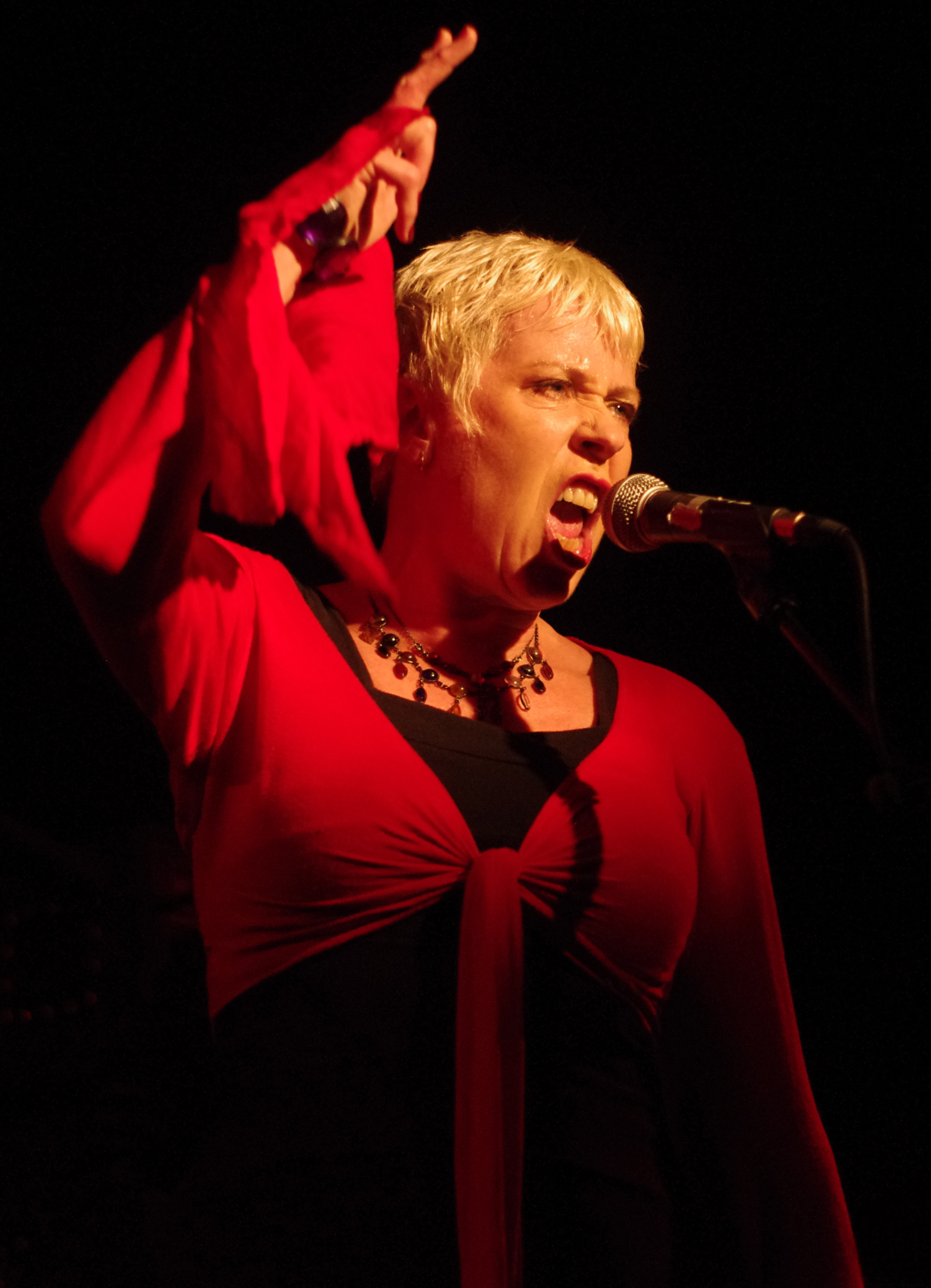 Hazel O'Connor 2010 at the Ropetackle Centre, Shoreham Image by Danny Simpson